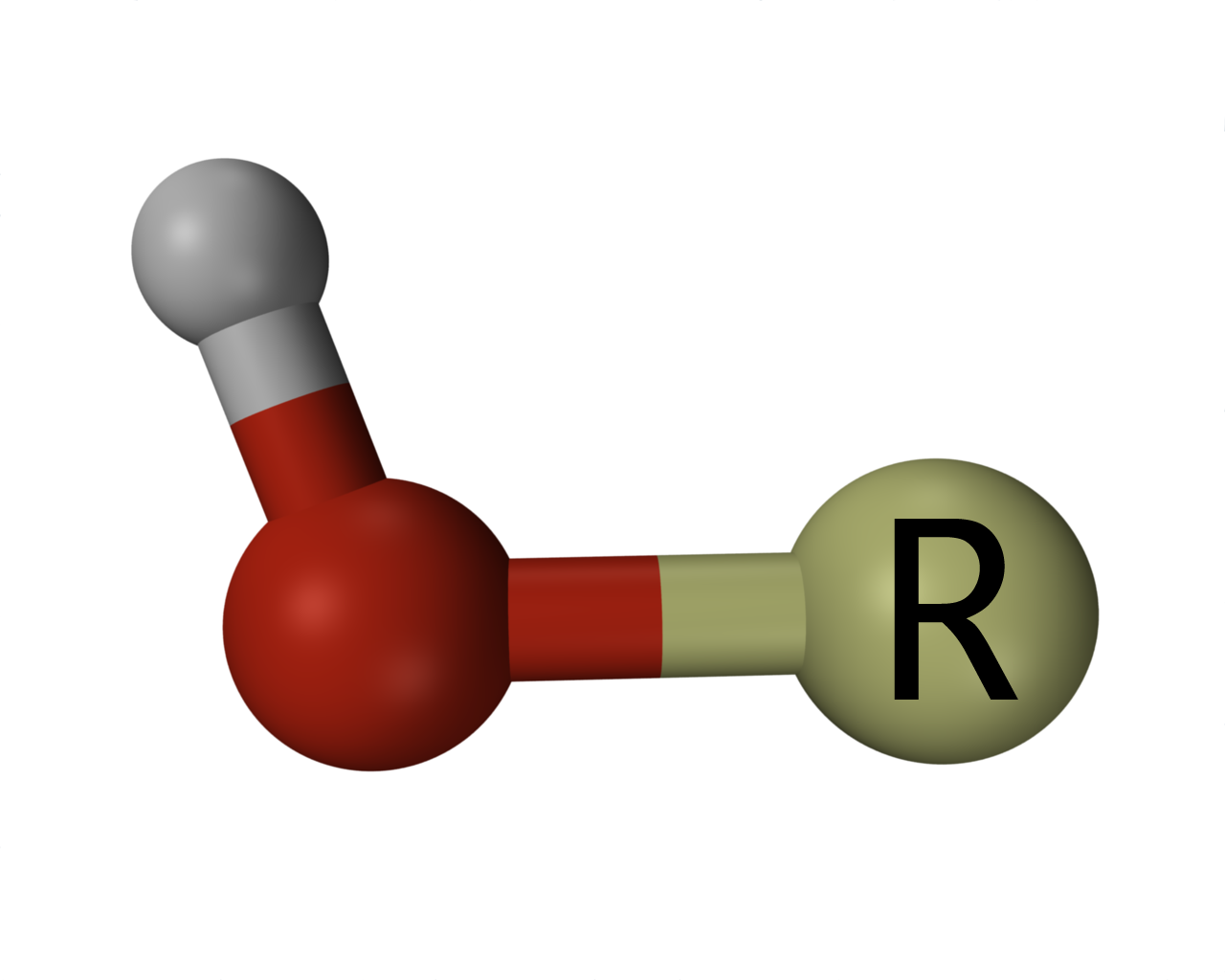 3D model of the Hydroxyl group created from .pdb file.